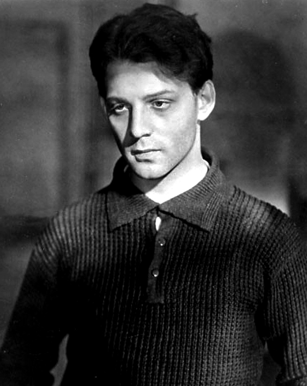 Publicity still of Jean-Pierre Aumont